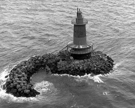 West Bank Light - Front Range for Ambrose Channel